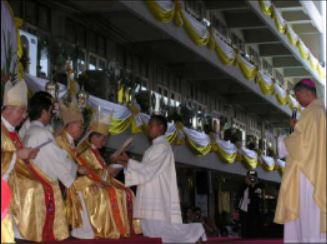 Bishop Panya's anointment, 28 May 2005